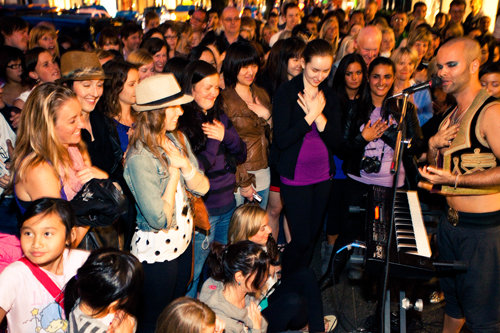 Will Blunderfield at Robson Street in Vancouver, July 3, 2010.